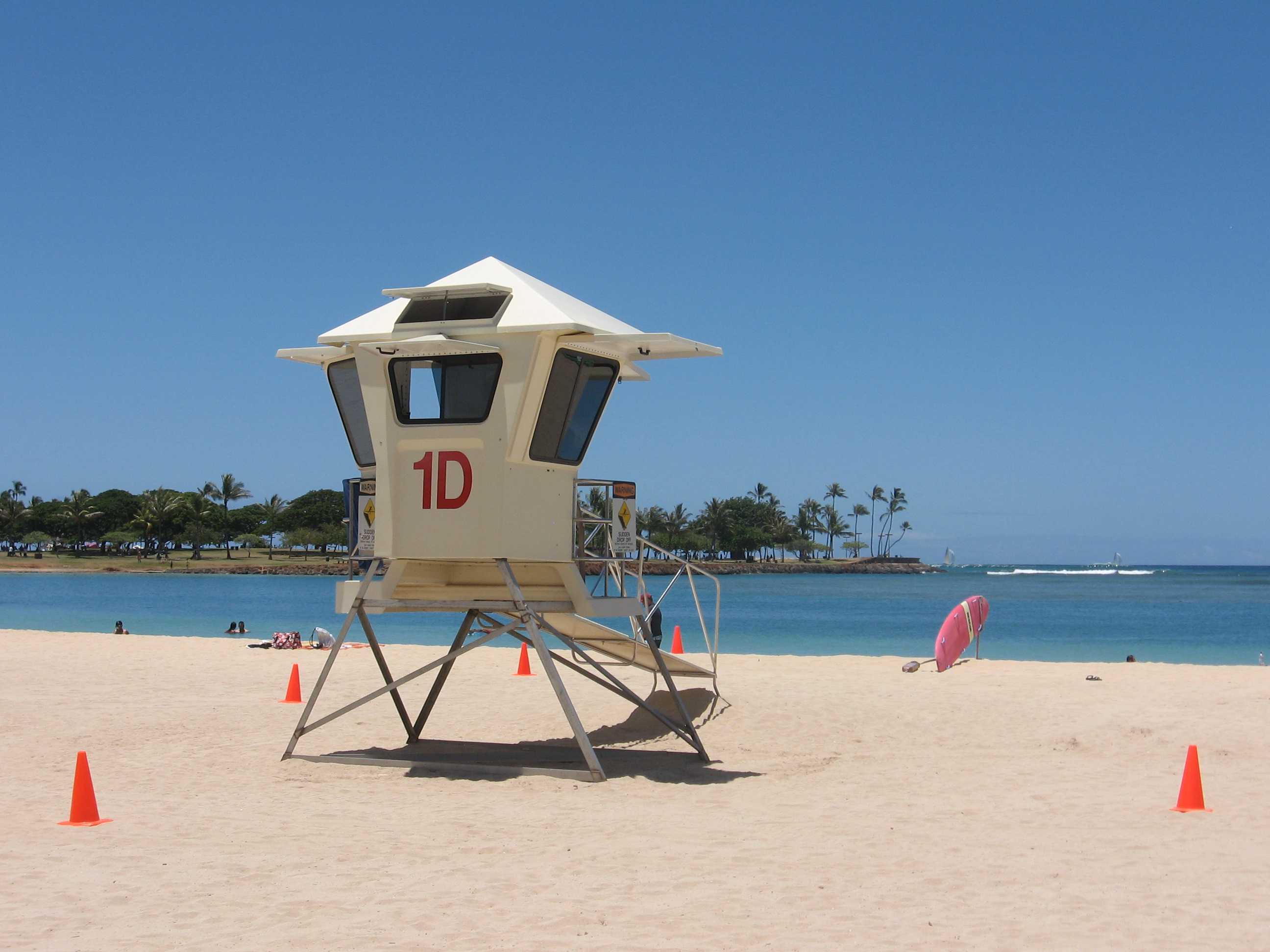 An enclosed life guard tower at Ala Moana Beach, Honolulu, Hawaii. This fiberglass tower was designed and manufactured by Industrial Design Research in Santa Ana, CA.